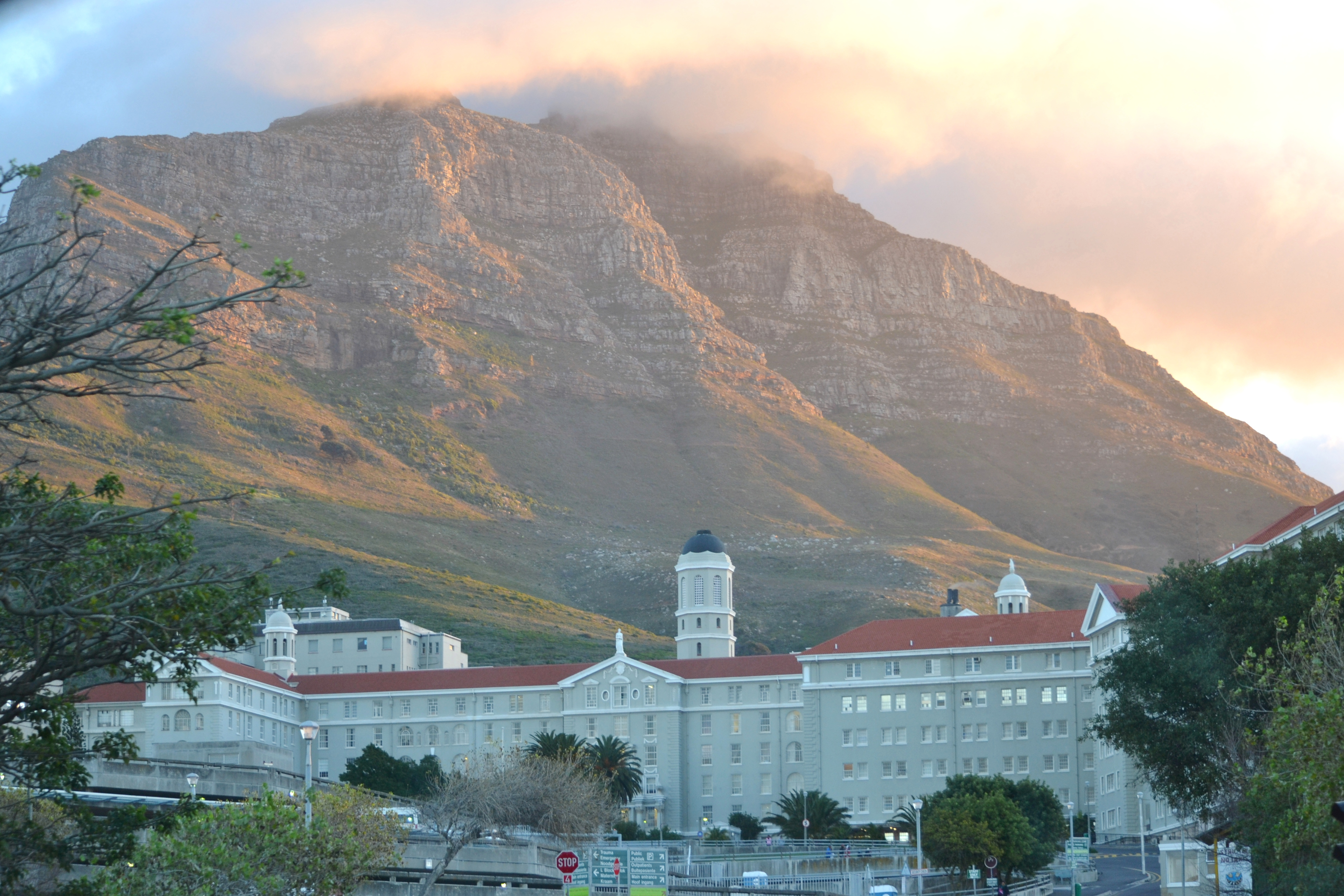 Groote Schuur Hospital, Observatory, Cape Town, Western Cape. This media shows a South African Protected Site with SAHRA file reference 9/2/018/0153.